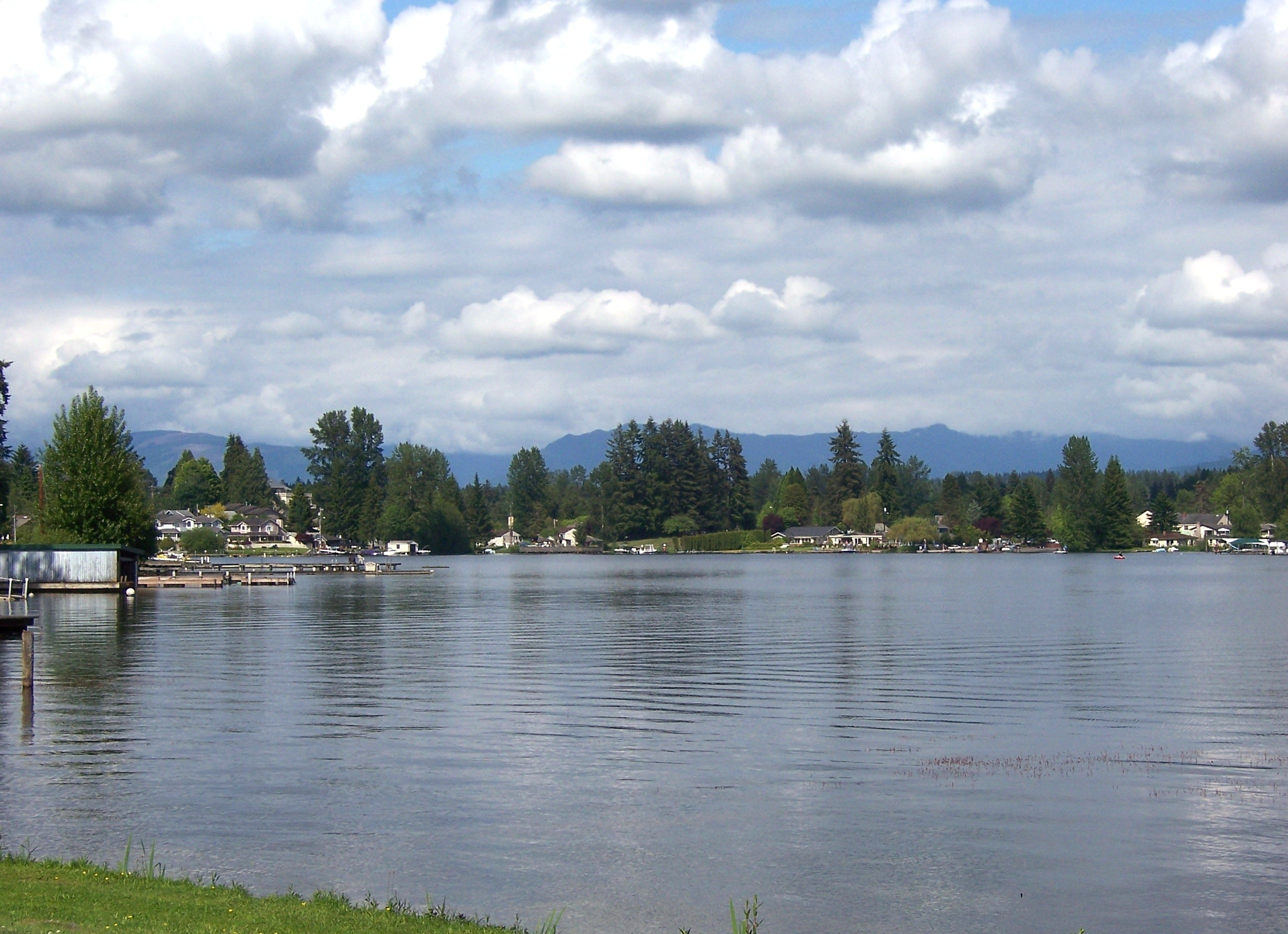 Looking towards the northeastern shores of Lake Stevens in Lake Stevens, Washington, USA, as seen from N Lakeshore Drive. The Cascade Mountains can be seen in the background.